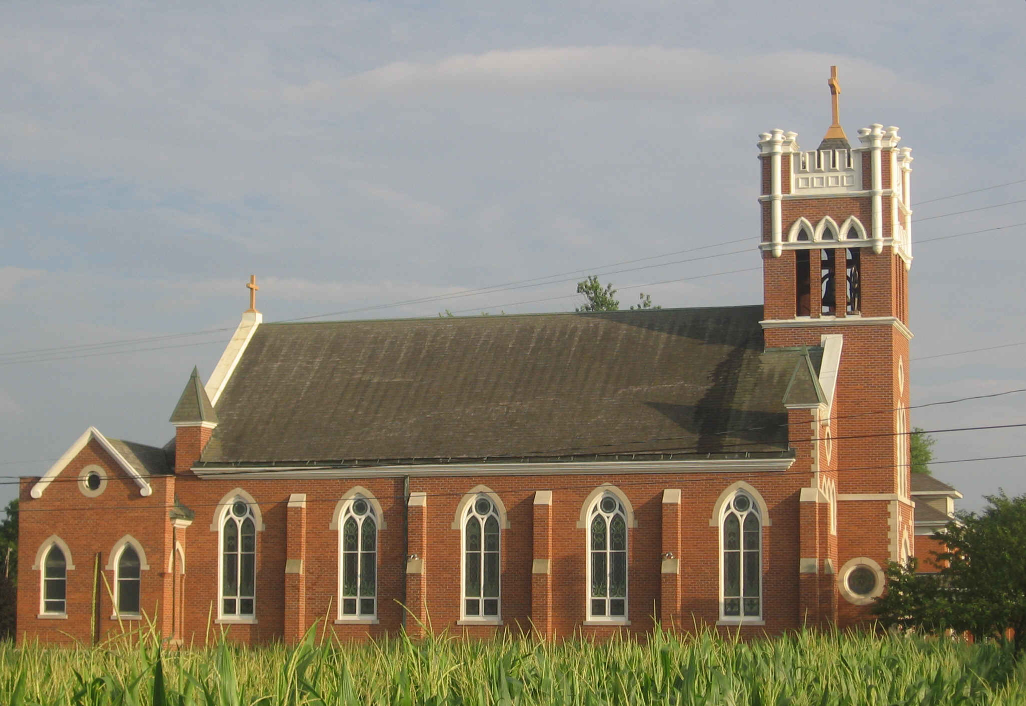 Photo of the St Joseph Catholic Church on the north side of Blakeslee, Ohio